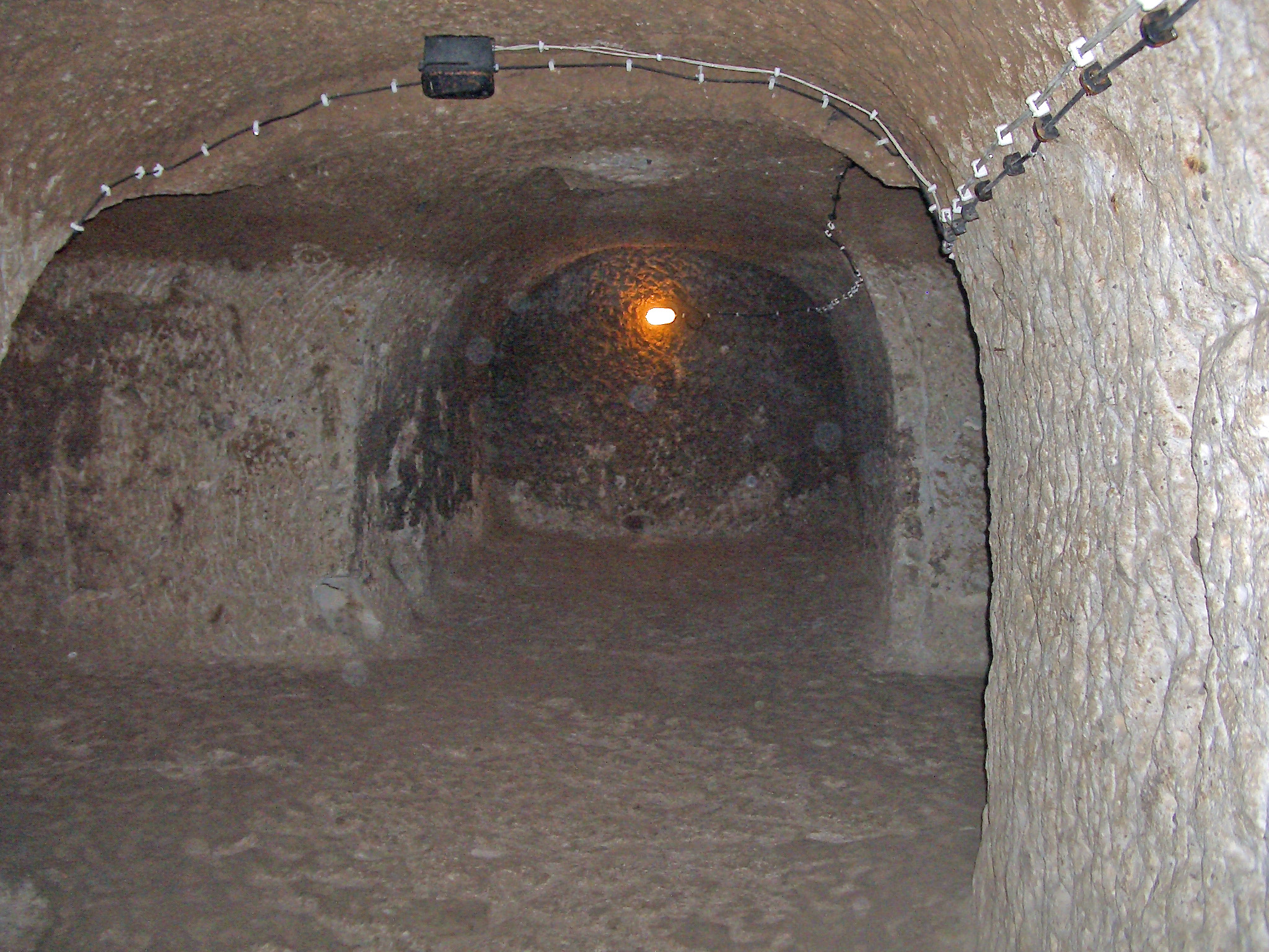 Derinkuyu Underground City